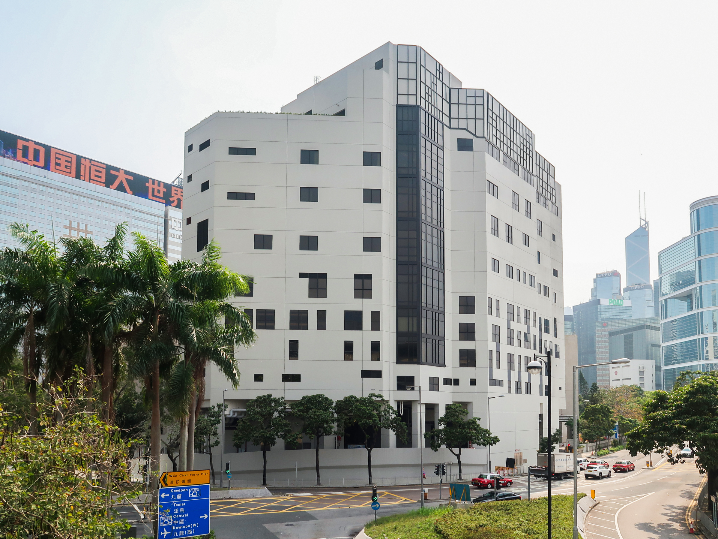 Hong Kong Academy for Performing Arts Expansion